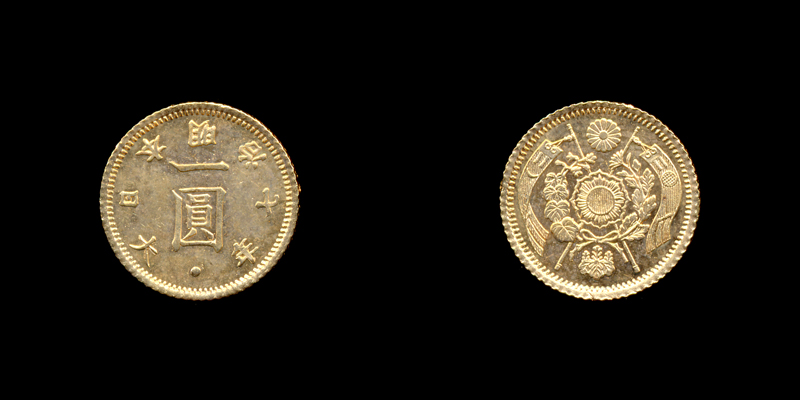 1yen-Gold-M7